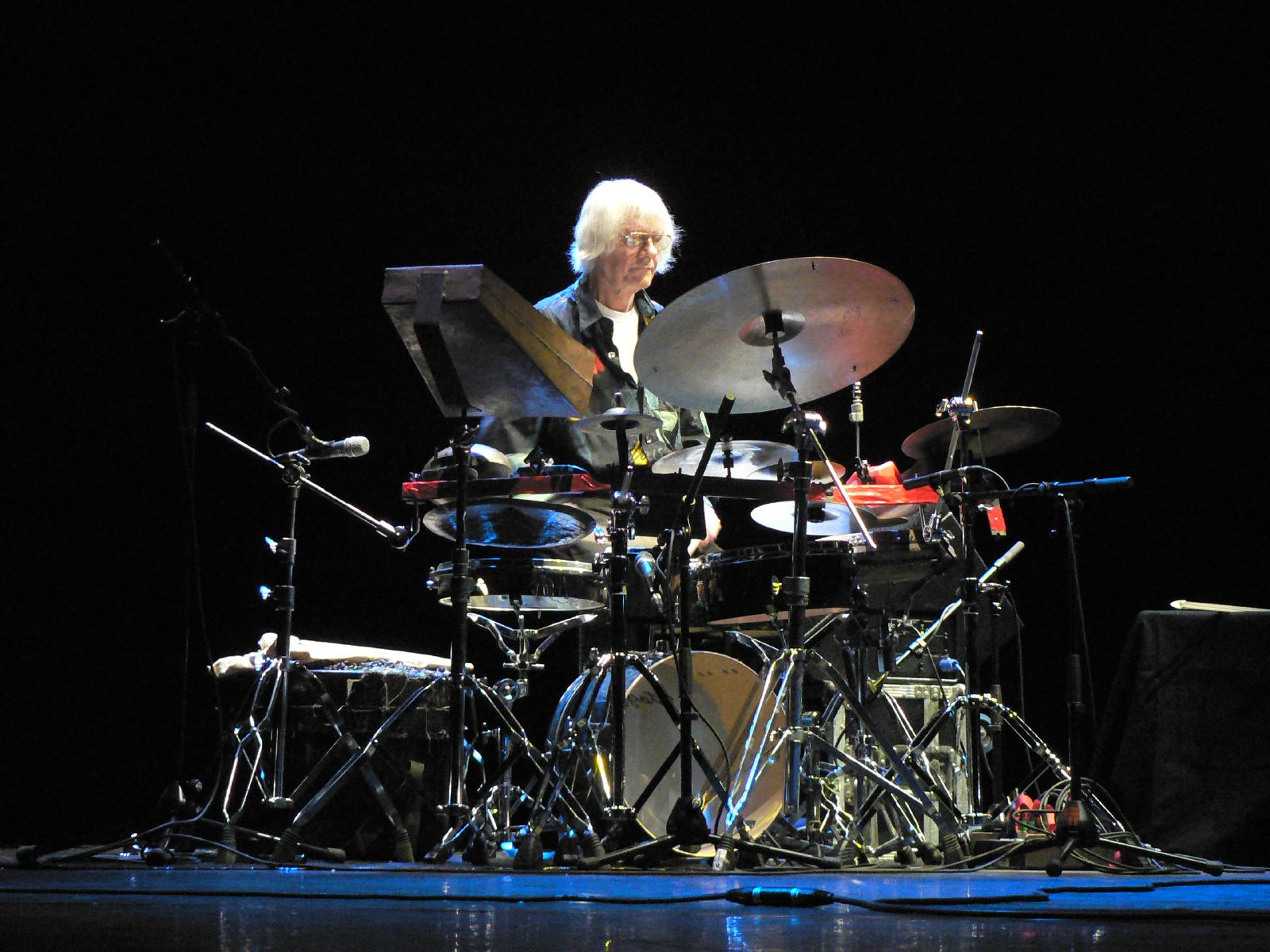 Tony Oxley